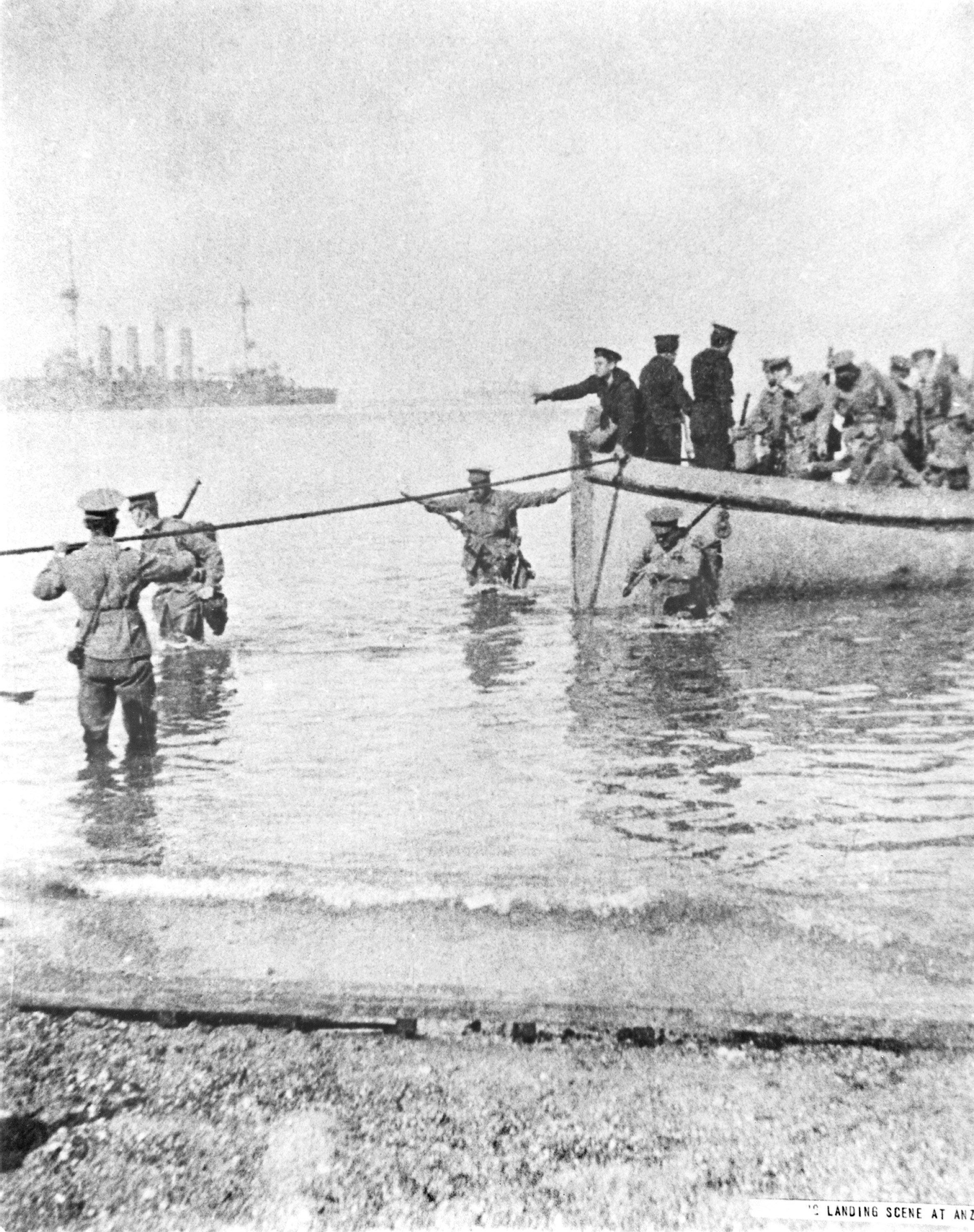 Gallipoli, Anzac Beach, 25 April 1915. Directed by sailors from a destroyer, a tie line is secured so troops can disembark on the beach. A steady stream of soldiers were transported to shore during the day.